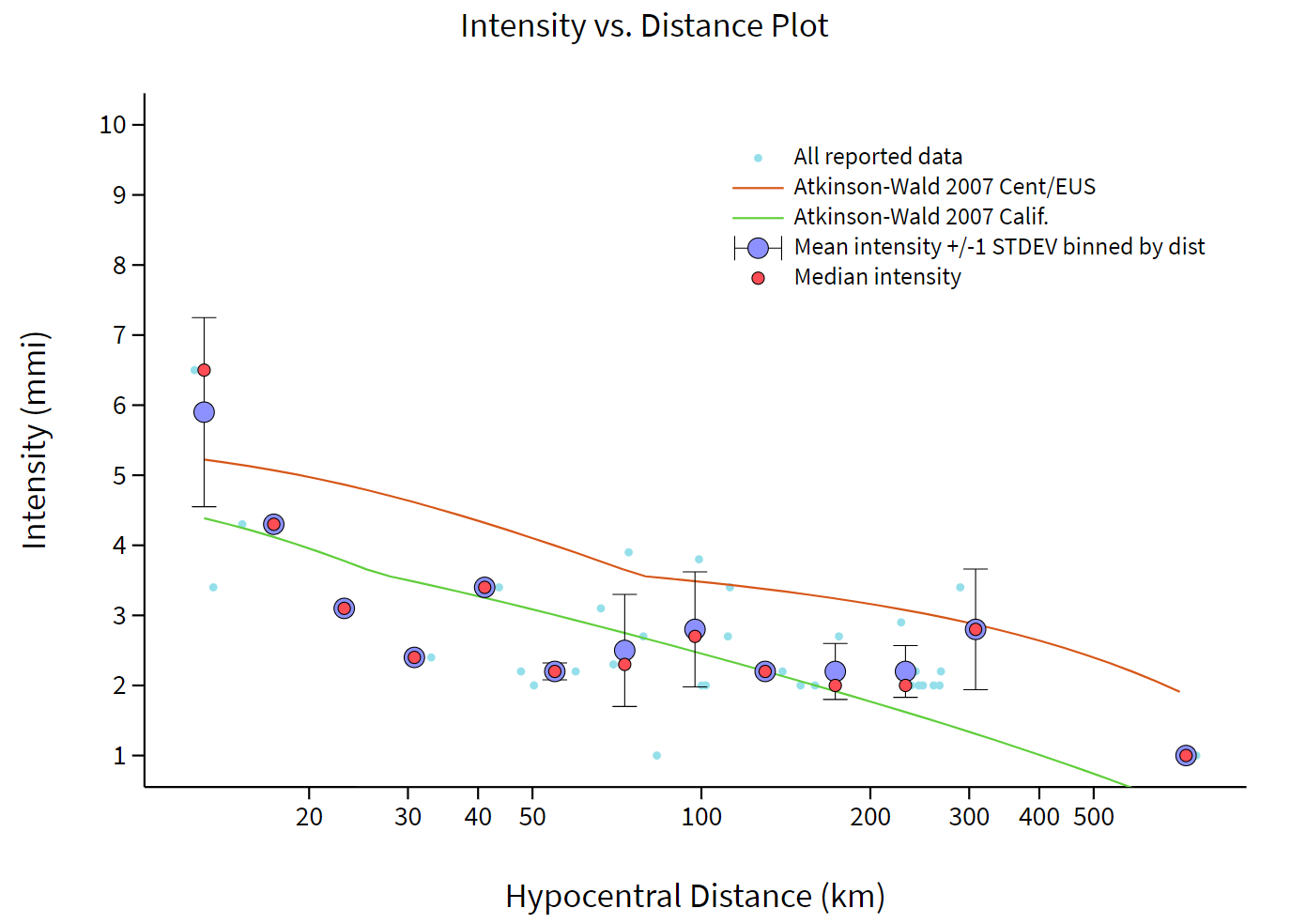 M 4.7 - 4km SW of Heung-hai, South Korea - Intensity vs. Distance Plot